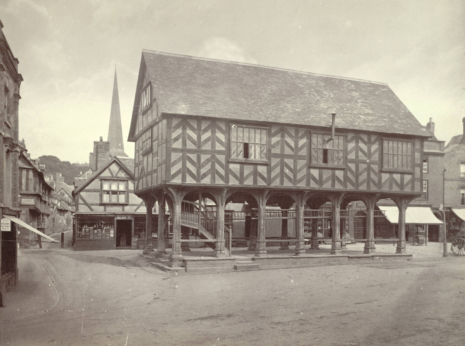 Collection: A. D. White Architectural Photographs, Cornell University Library Accession Number: 15/5/3090.01138 Title: Ledbury Market House Photograph date: ca. 1865-ca. 1885 Building Date: ca. 1617-ca. 1647 Location: Europe: United Kingdom; Ledbury Materials: albumen print Image: 6 1/2 x 8 1/2 in.; 16.51 x 21.59 cm Provenance: Gift of Andrew Dickson White Persistent URI: There are no known copyright restrictions on this image. The digital file is owned by the Cornell University Library which is making it freely available with the request that, when possible, the Library be credited as its source. We had some help with the geocoding from Web Services by Yahoo! This image is from the Cornell University Library's The Commons Flickr stream. The Library has determined that there are no known copyright restrictions. This image was taken from Flickr's The Commons. The uploading organization may have various reasons for determining that no known copyright restrictions exist, such as: The copyright is in the public domain because it has expired; The copyright was injected into the public domain for other reasons, such as failure to adhere to required formalities or conditions; The institution owns the copyright but is not interested in exercising control; or The institution has legal rights sufficient to authorize others to use the work without restrictions. More information can be found at Please add additional copyright tags to this image if more specific information about copyright status can be determined. See Commons:Licensing for more information.No known copyright restrictionsNo restrictions